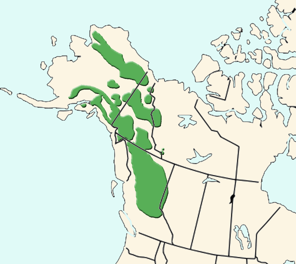 Range of Ovis dalli in North America